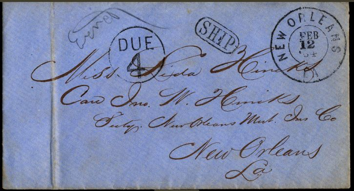 Confederate Flag of truce cover, 1864, to New Orleans, notation on cover by examiner.